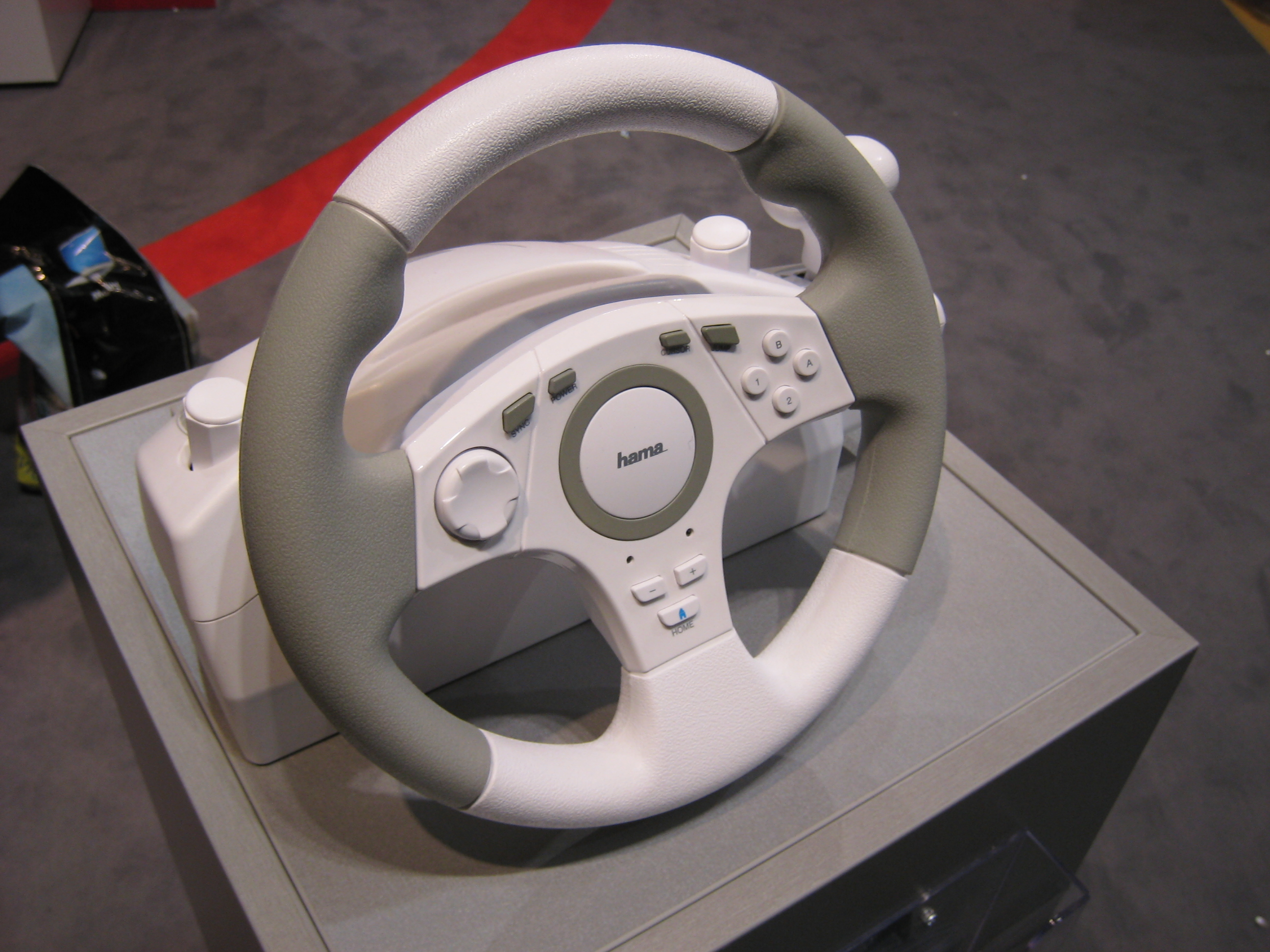 A steering wheel by hama at the Gamescom 2009 which should improve the control for racing games for the Nintendo Wii compared to the Wii Remote